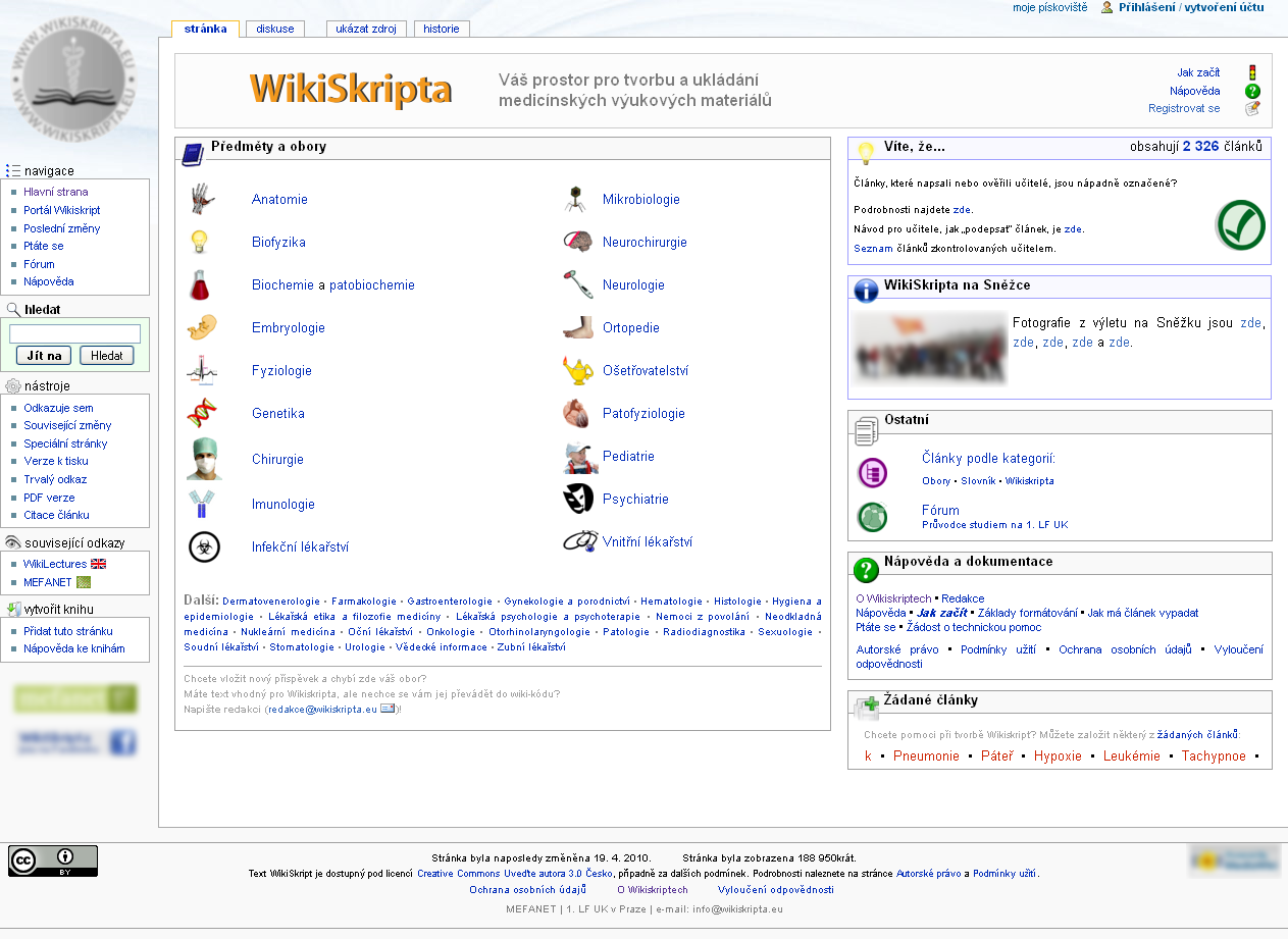 Screenshot of the WikiSkripta main page.